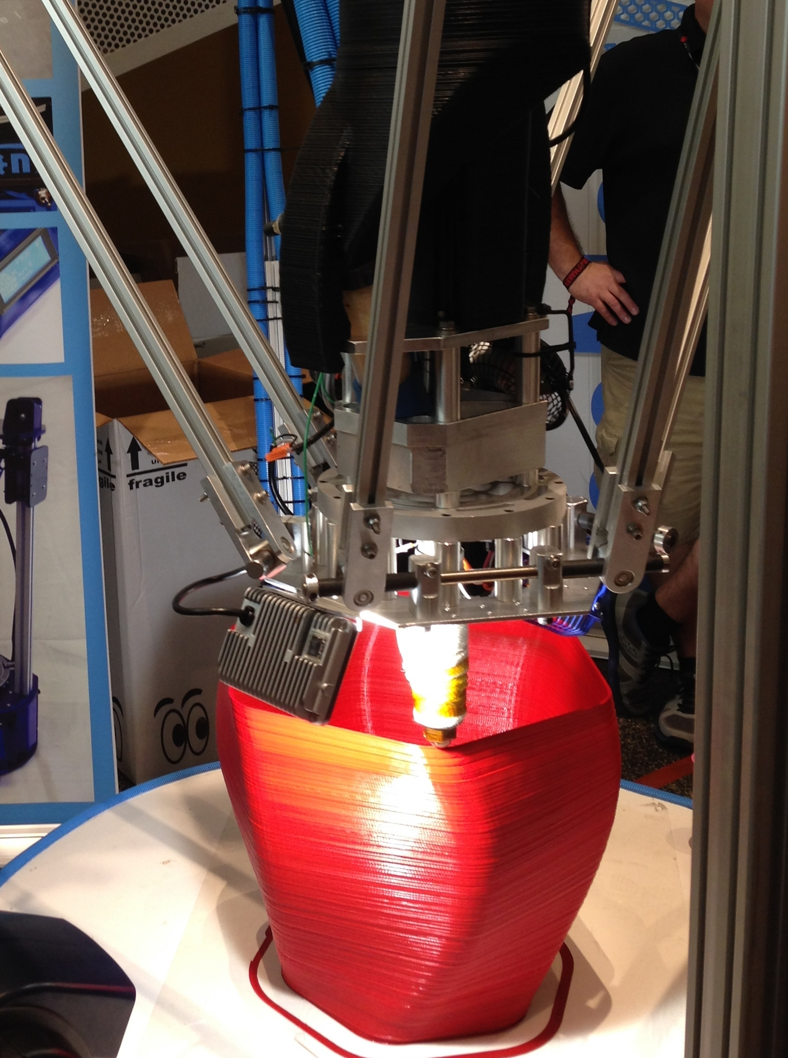 A large delta-style 3D printer by SeeMeCNC capable of printing an object with up to 4 feet in diameter and 10 feet in height.